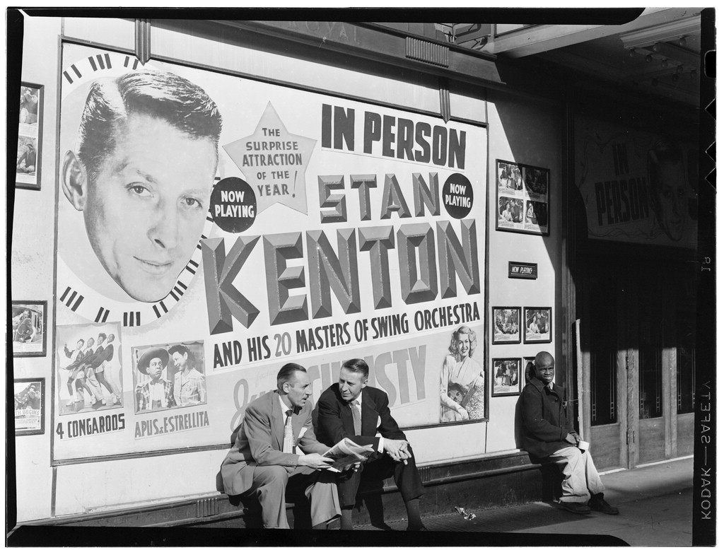 Gottlieb, William P., 1917-, photographer. [Portrait of Stan Kenton and Bob Gioga, 1947 or 1948] 1 negative : b&w ; 3 1/4 x 4 1/4 in. Notes: Gottlieb Collection Assignment No. 171 Reference print available in Music Division, Library of Congress. Purchase William P. Gottlieb Forms part of: William P. Gottlieb Collection (Library of Congress). Subjects: Kenton, Stan Gioga, Bob Jazz musicians--1940-1950. Conductors (Music)--1940-1950. Pianists--1940-1950. Saxophonists--1940-1950. Format: Portrait photographs--1940-1950. Cityscape photographs--1940-1950. Film negatives--1940-1950. Rights Info: Mr. Gottlieb has dedicated these works to the public domain, but rights of privacy and publicity may apply. Repository: (negative) Library of Congress, Prints & Photographs Division, Washington D.C. 20540 USA, (reference print) Library of Congress, Music Division, Washington D.C. 20540 USA, Part Of: William P. Gottlieb Collection (DLC) 99-401005 General information about the Gottlieb Collection is available at Persistent URL: Call Number: LC-GLB13- 0495 This work is from the William P. Gottlieb collection at the Library of Congress. Rights and restrictions. In accordance with the wishes of William Gottlieb, the photographs in this collection entered into the public domain on February 16, 2010.